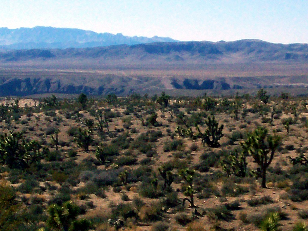 Beaver Dam Wash — in the Beaver Dam Wash National Conservation Area. The Conservation Area is located in the Canyon Lands of southwestern Utah, west of St. George in Washington County, along the borders with Arizona and Nevada. by David Jolley.